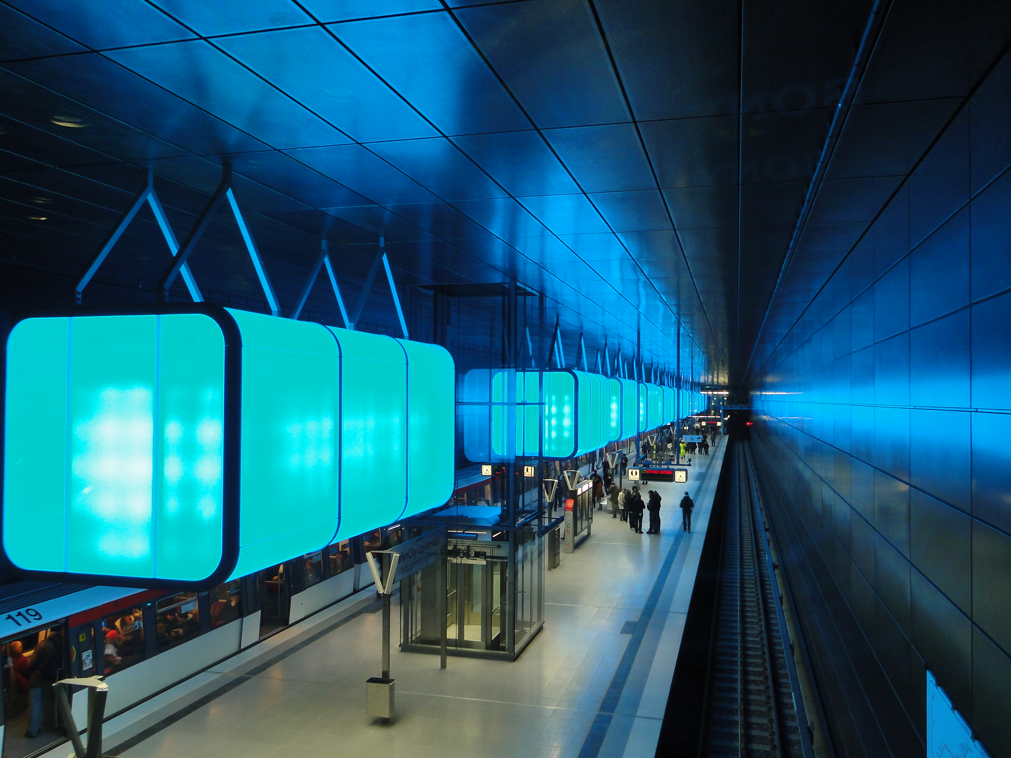 Lights at subwaystation HafenCity Universität (HafenCity University) in Hamburg